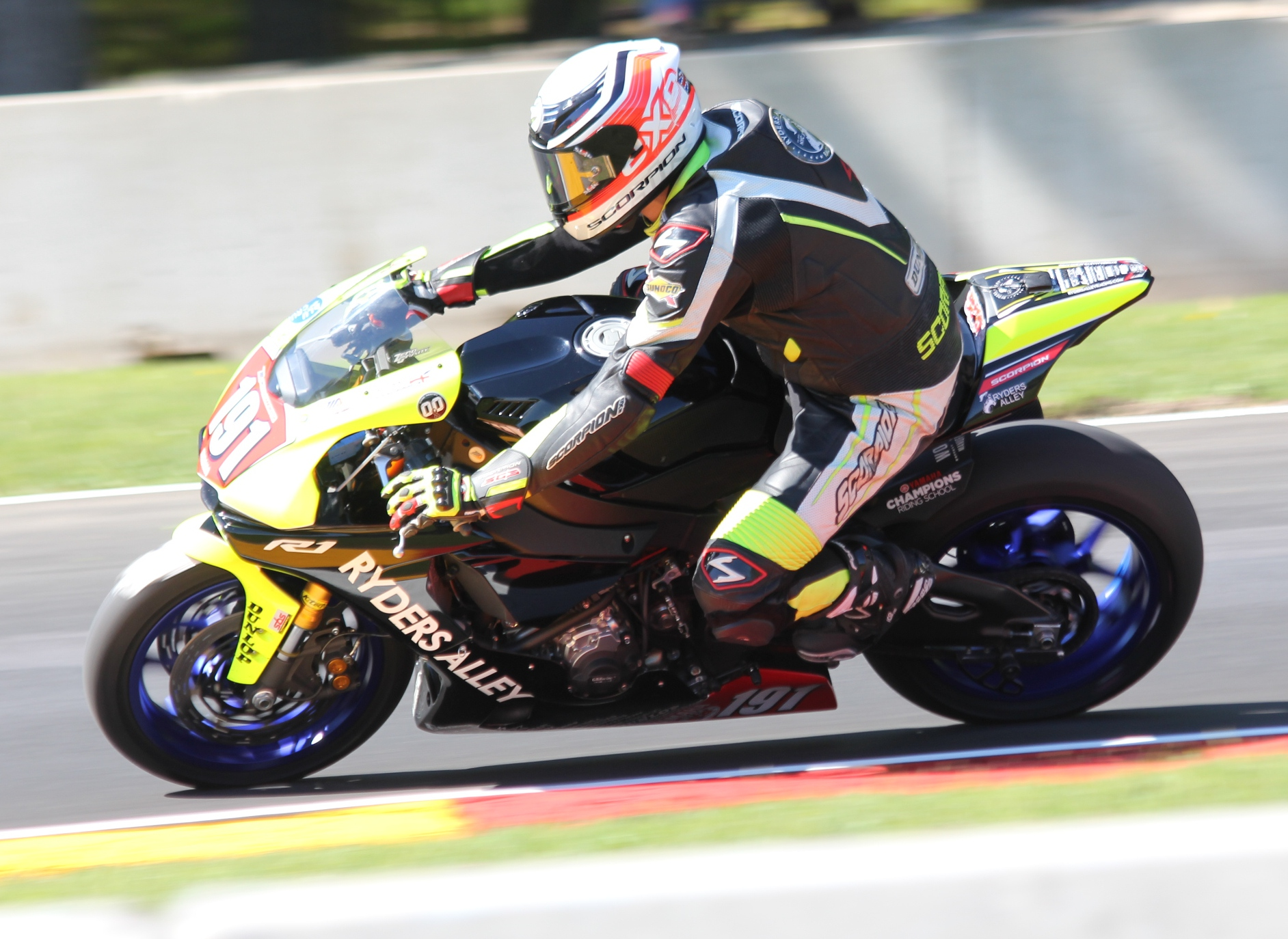 MotoAmerica AMA Superstock 1000 bike rider Mark Heckles leaning left at Turn 6 at Road America.